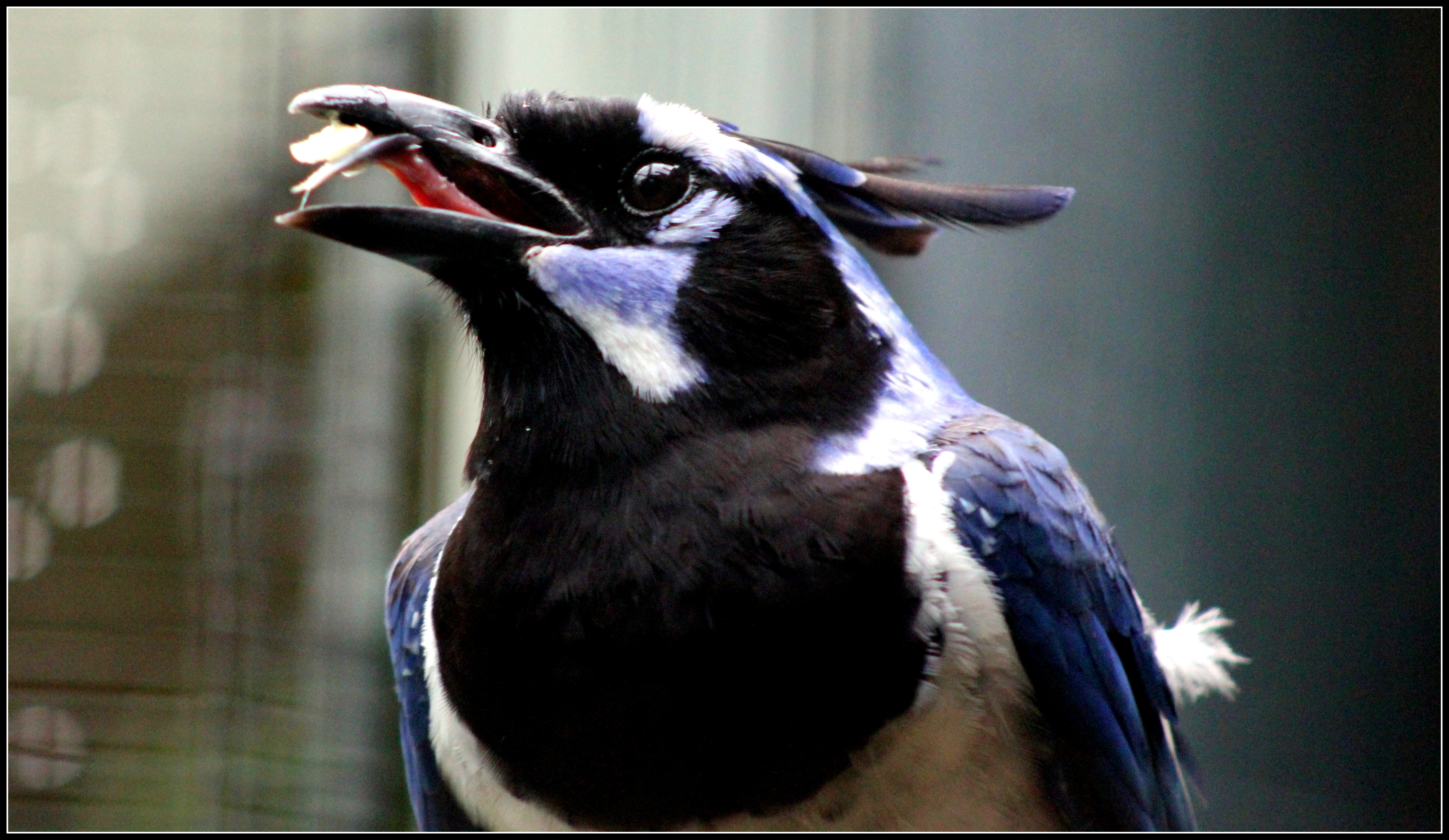 FIELD MARKS-the Black-billed Magpie, the Red-billed Blue Magpie and the closely related White-throated Magpie-Jay, have a comparable tail length. The upperparts are blue with white tips to the tail feathers; the underparts are white. The bill, legs, head, and conspicuous crest are black except for a pale blue crescent over the eyes and a patch under the eye. In juveniles, the crest has a white tip and the patch below the eye is smaller and darker blue than in adults